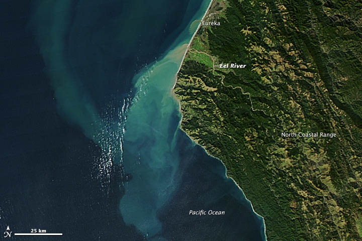 After a series of rainstorms drenched northern California in late November and early December 2012, sediment-laden water was coursing down the Eel River toward the Pacific Ocean. The Moderate Resolution Imaging Spectroradiometer (MODIS) on NASA’s Aqua satellite acquired this natural-color image on December 9, 2012. The Eel River drains about 3,680 square miles (9,530 square kilometers) of land, making it the third largest watershed in California; only the San Joaquin and Salinas rivers drain larger areas. The 200-mile (300-kilometer) river flows south to north in a rugged part of the California Coast Ranges, originating in northeastern Mendocino County and entering the Pacific in Humboldt County, near Eureka. San Francisco is about 200 miles to the south. A number of large storms blew through northern California within a few weeks, bringing heavy rain to both inland and coastal California. Some of the largest storms passed between November 26 and December 2.